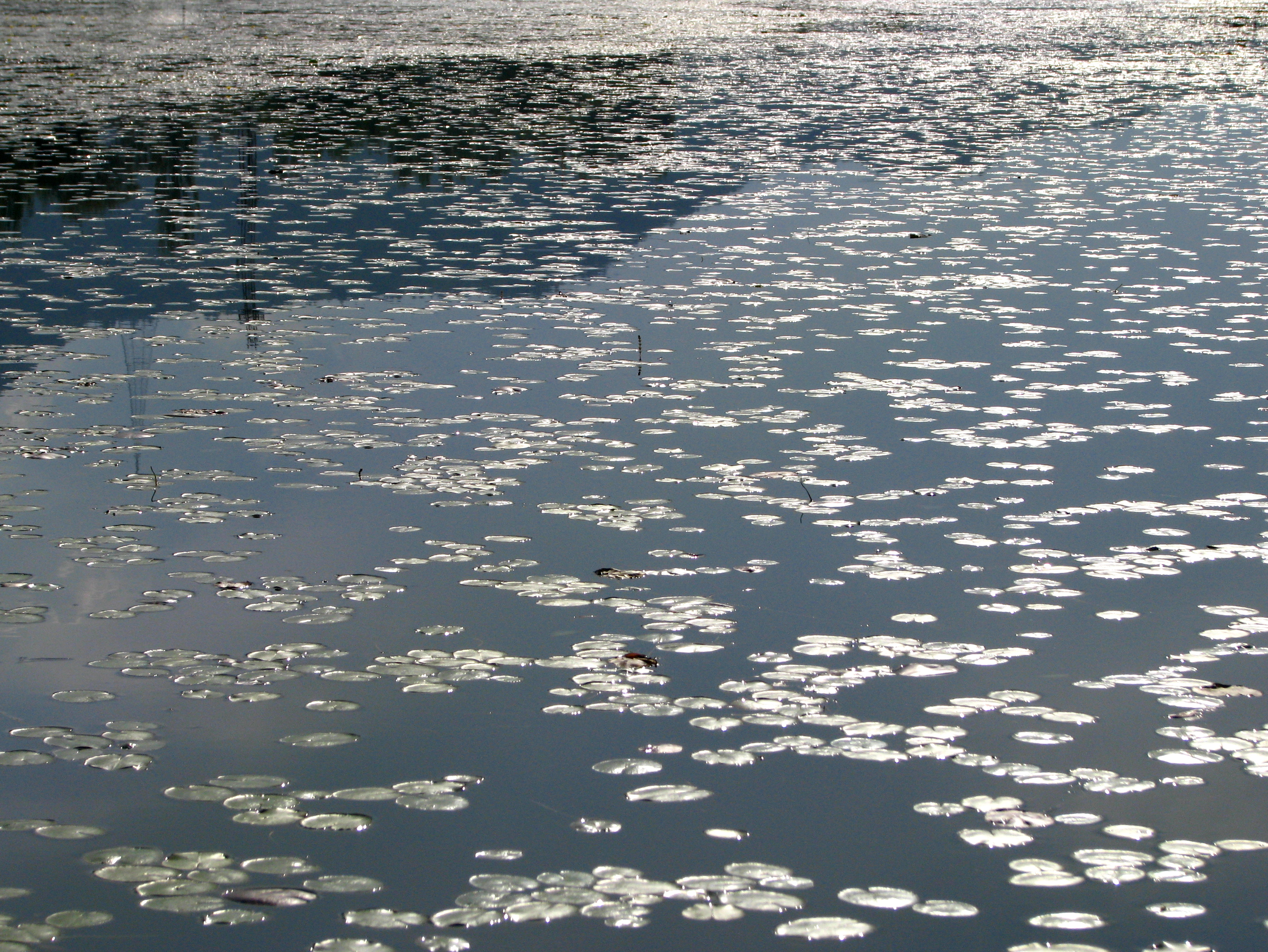 Lily pads catch the sun on Dal Lake